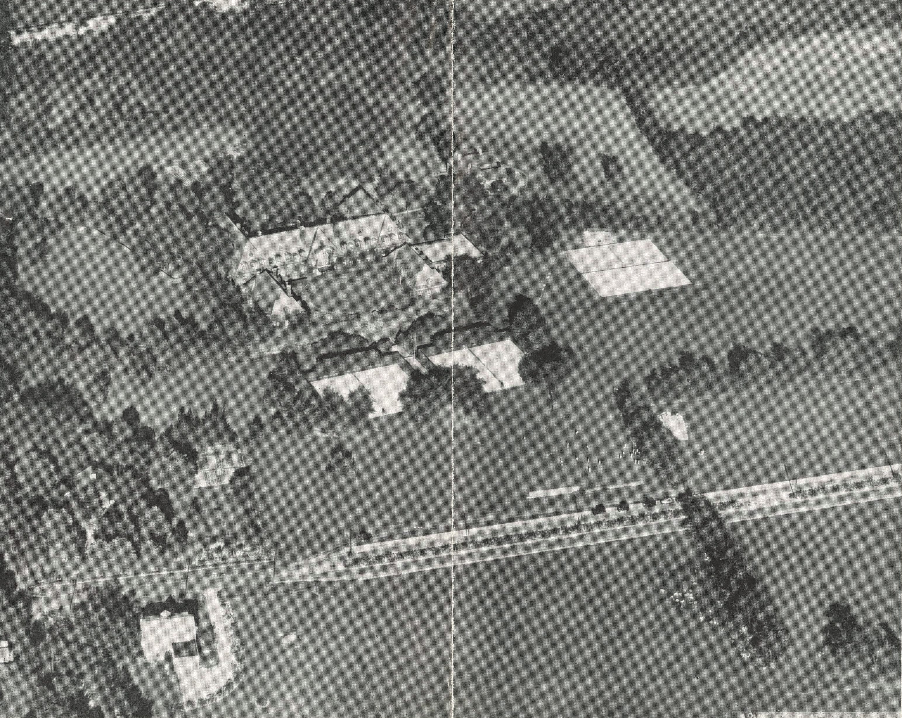 1942 east-facing aerial photo of Dow Hall, part of Briarcliff College.